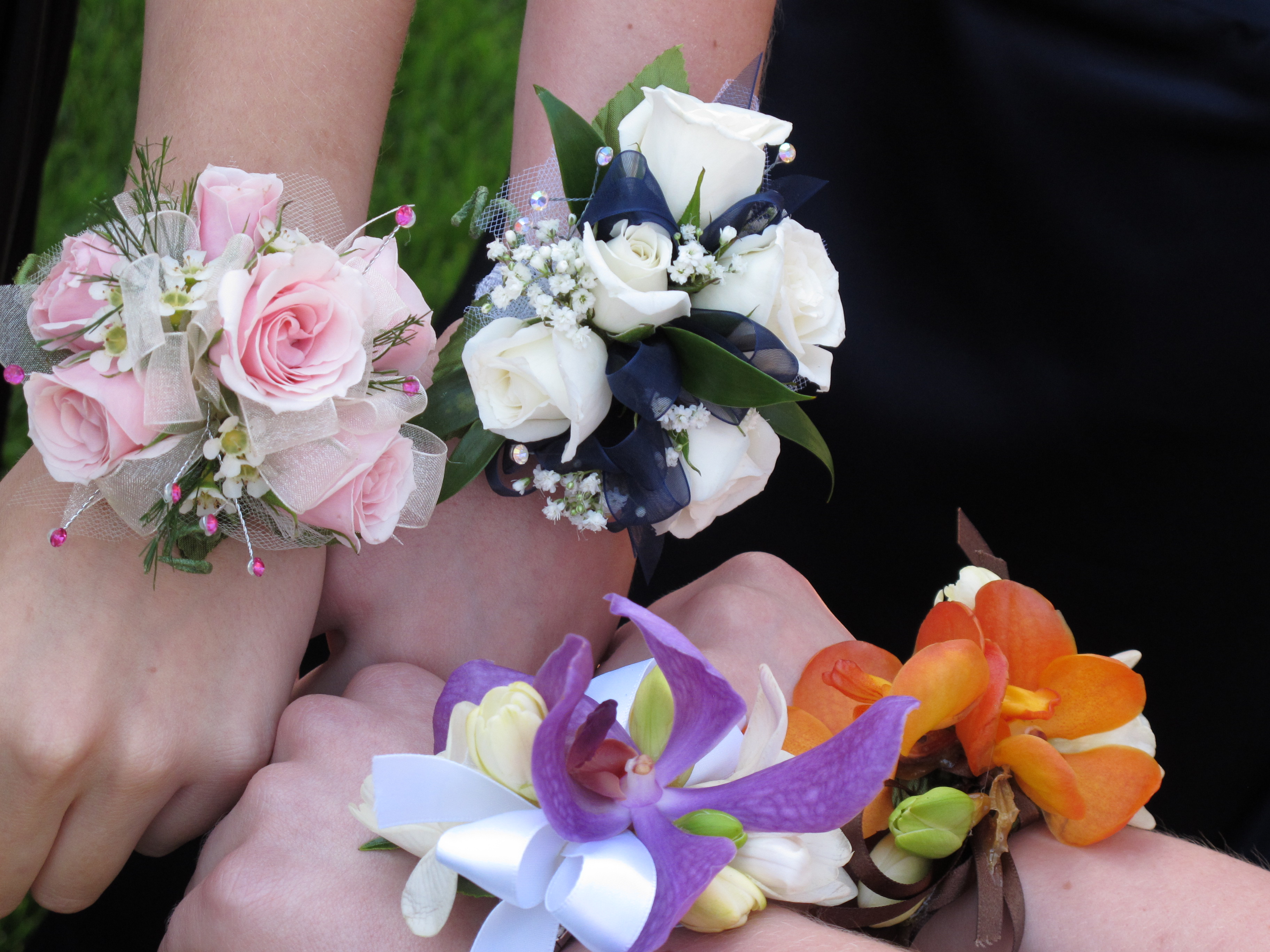 The corsages